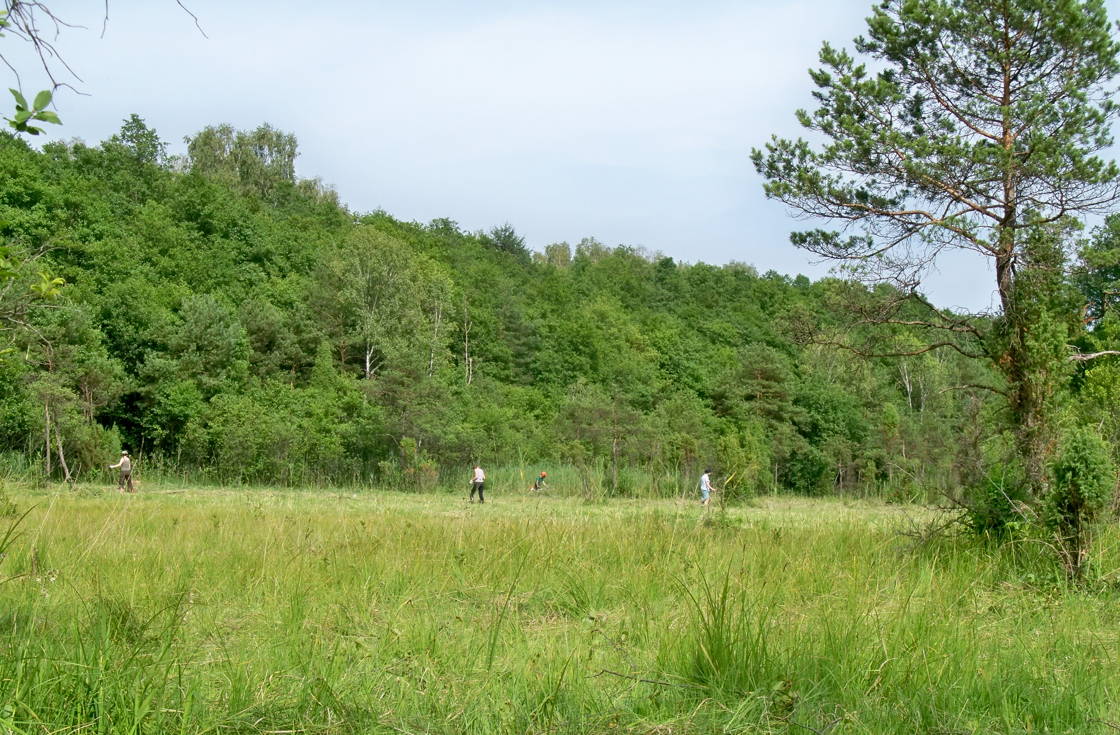 Removal of reeds from a peatland in 'Torfy Orońskie' reserve in Poland